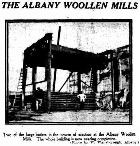 Boilers being erected in 1924 Photograph by W. Wansborough